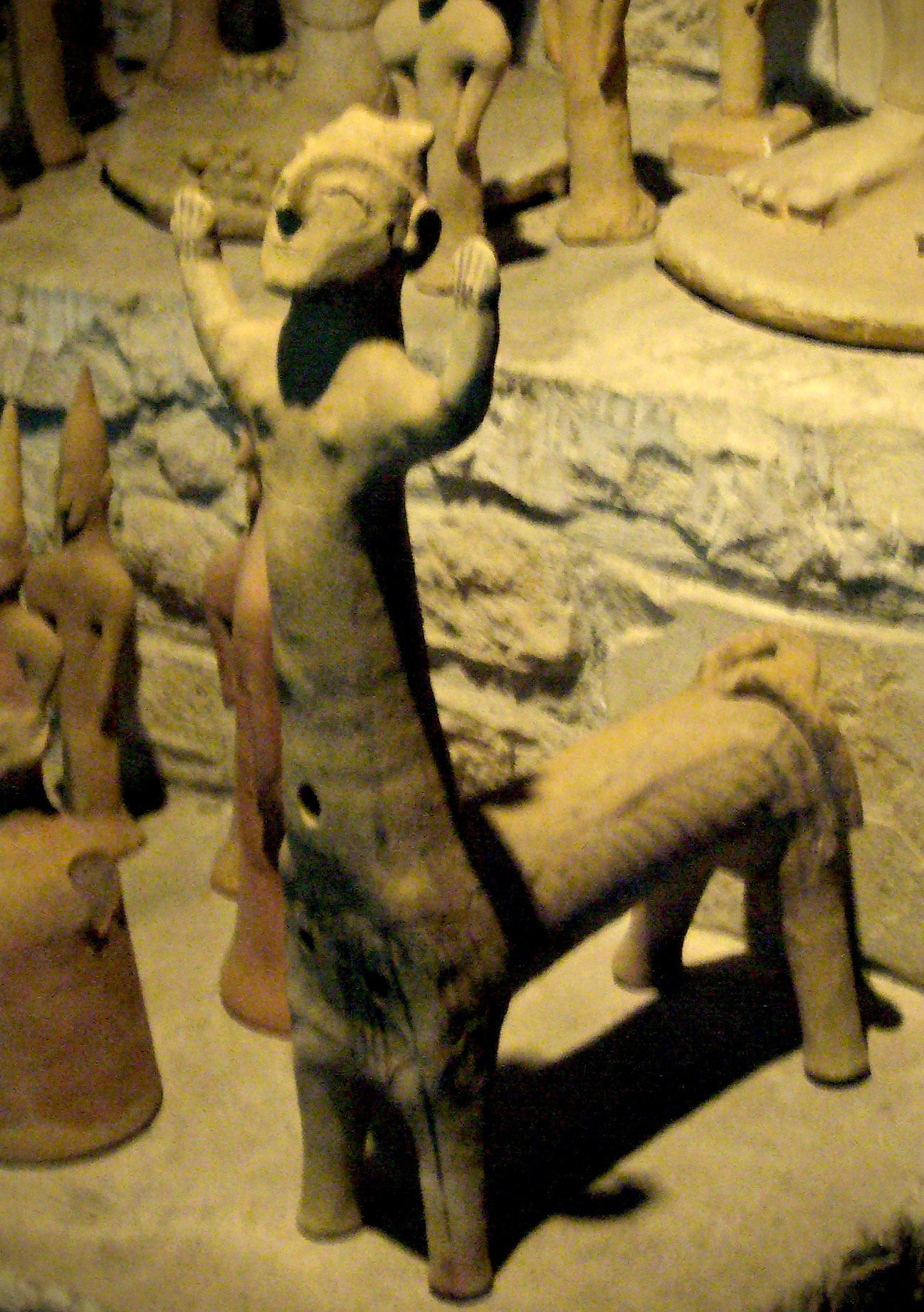 A warrior god in the form of a centaur. It's a part of a group of 2000 terracotta figurines from the sanctuary of Agia Irini (Eirini) in NW Cyprus. They are dated to the 7th-6th centuries B.C. Archaeological Museum in Nicosia, Cyprus